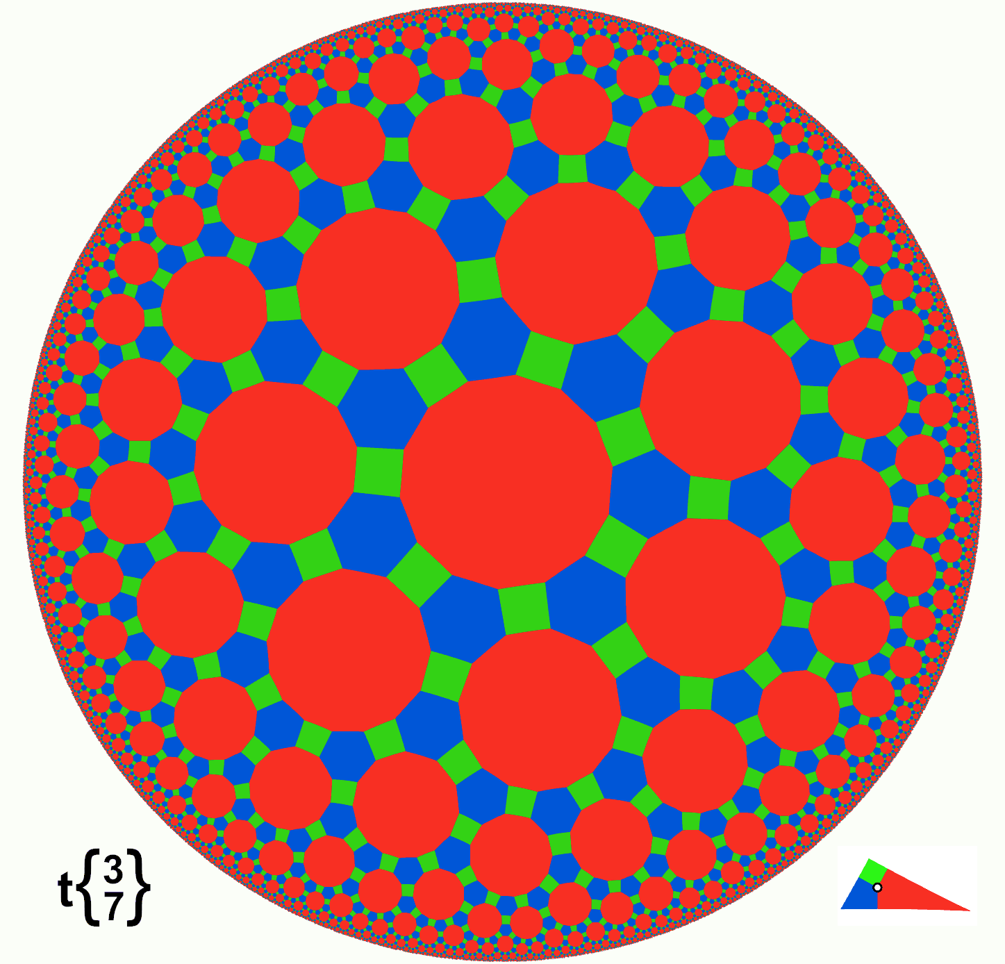 View of regular hyperbolic tiling omnitruncated {3,7} generated by software: KaleidoTile (software) Topology and and Geometry Software, Jeff Weeks